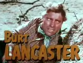 Cropped screenshot of Burt Lancaster from the trailer for the film Vengeance Valley.